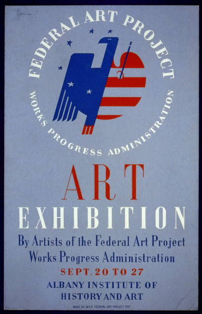 Title: Federal Art Project, Works Progress Administration art exhibition by artists of the Federal Art Project ... [at the] Albany Institute of History and Art Abstract: Poster for Federal Art Project exhibition of art by WPA Federal Art Project artists at the Albany Institute of History and Art. Physical description: 1 print on board (poster) : silkscreen, color. Notes: Work Projects Administration Poster Collection (Library of Congress).; Date stamped on verso: Sep 16 1938.